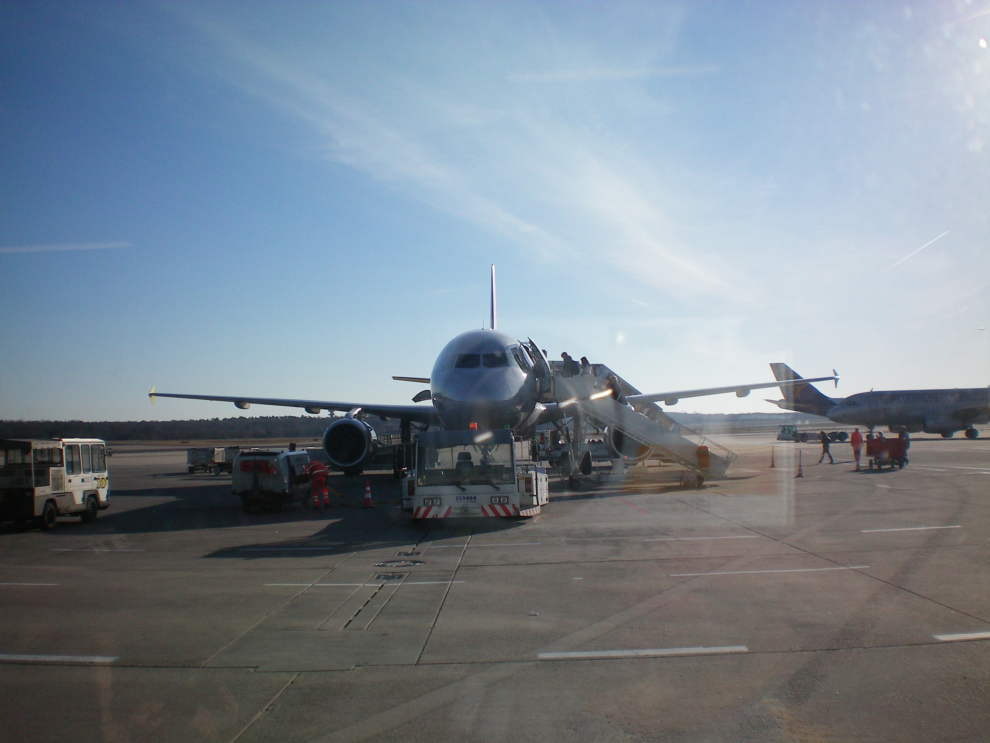 German Wings Airbus A319 preparing for departing to Skopje, Macedonia - Cologne Bonn Airport